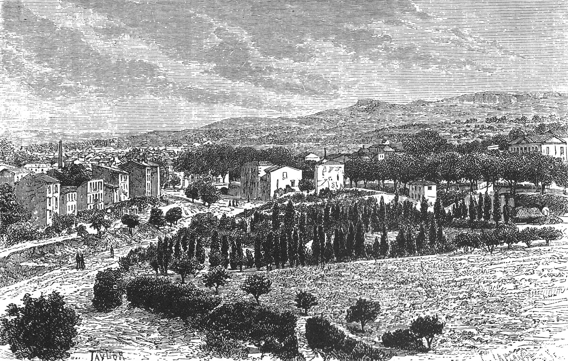 City of Apt 1880